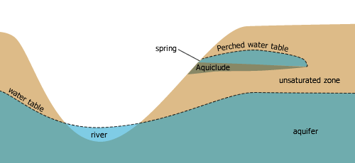 Diagram of Water table.